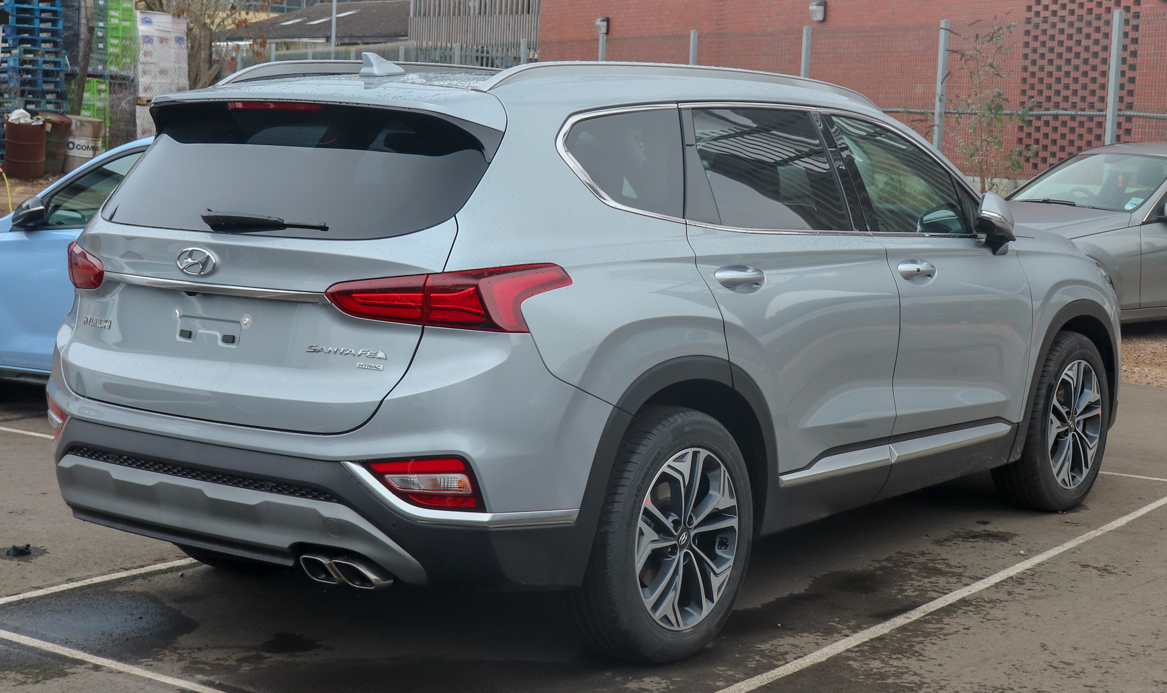 2019 Hyundai Santa Fe HTRAC Rear Taken in Stratford-upon-Avon